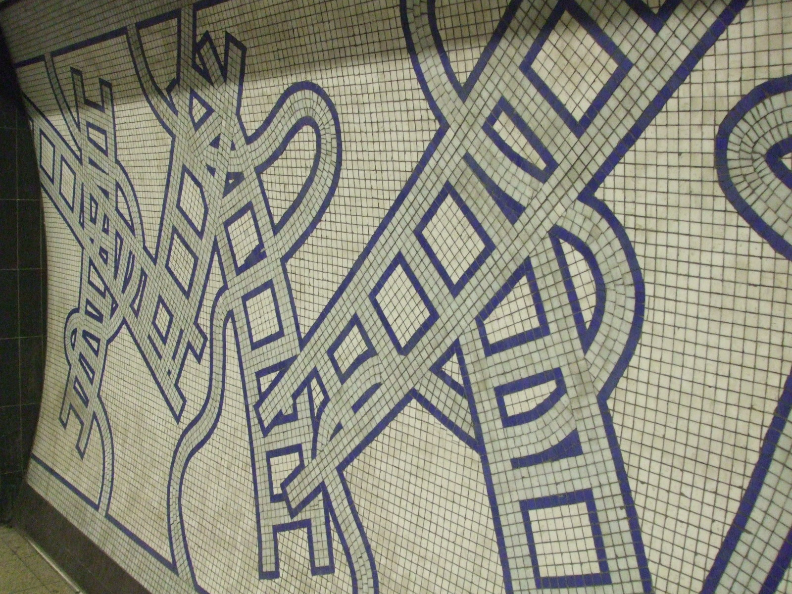 Oxford Circus tube station Central line platform motif, based on the game Snakes and Ladders